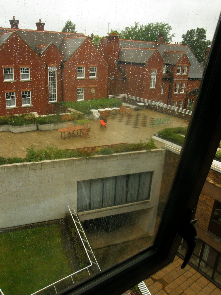 Netherhall House in London, Opus Dei centre